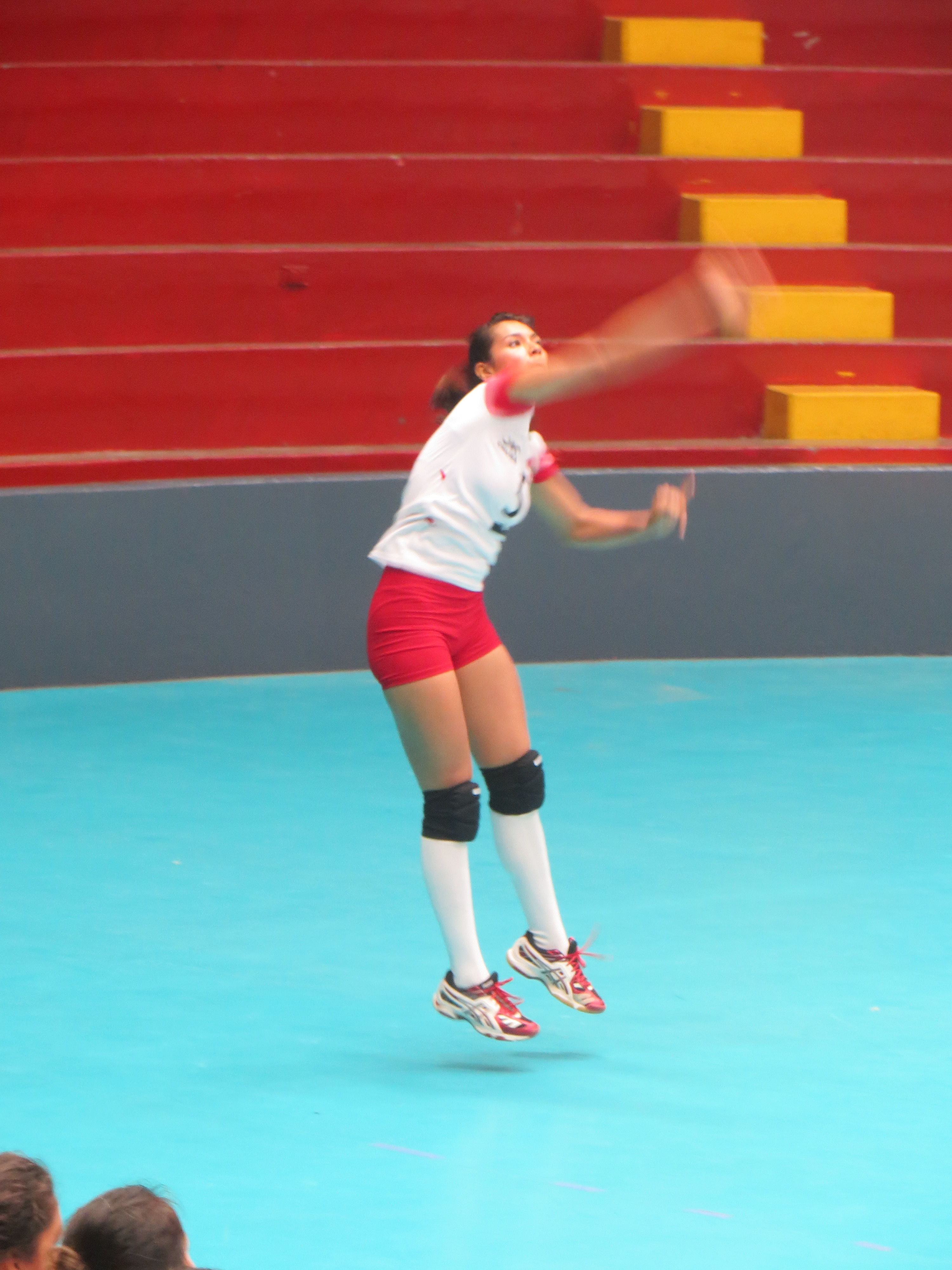 Josefa Zegarra, Capitana y central del Sport Loreto.